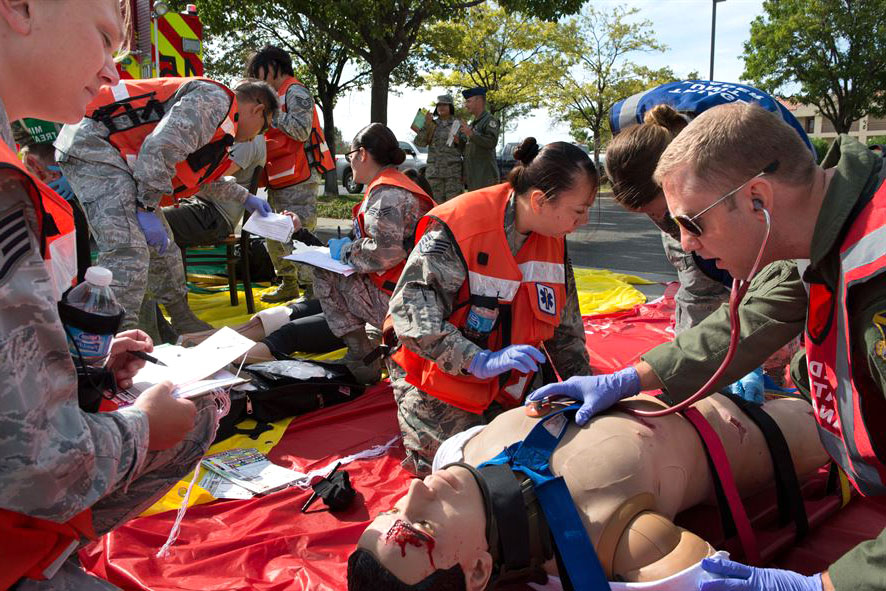 First responders from the 60th Medical Group work together to save victims of a simulated earthquake. First responders from the 60th Medical Group work together to save victims of a simulated earthquake July 15, 2014, during a training exercise on Traivs Air Force Base, California. (U.S. Air Force photo/Ken Wright)